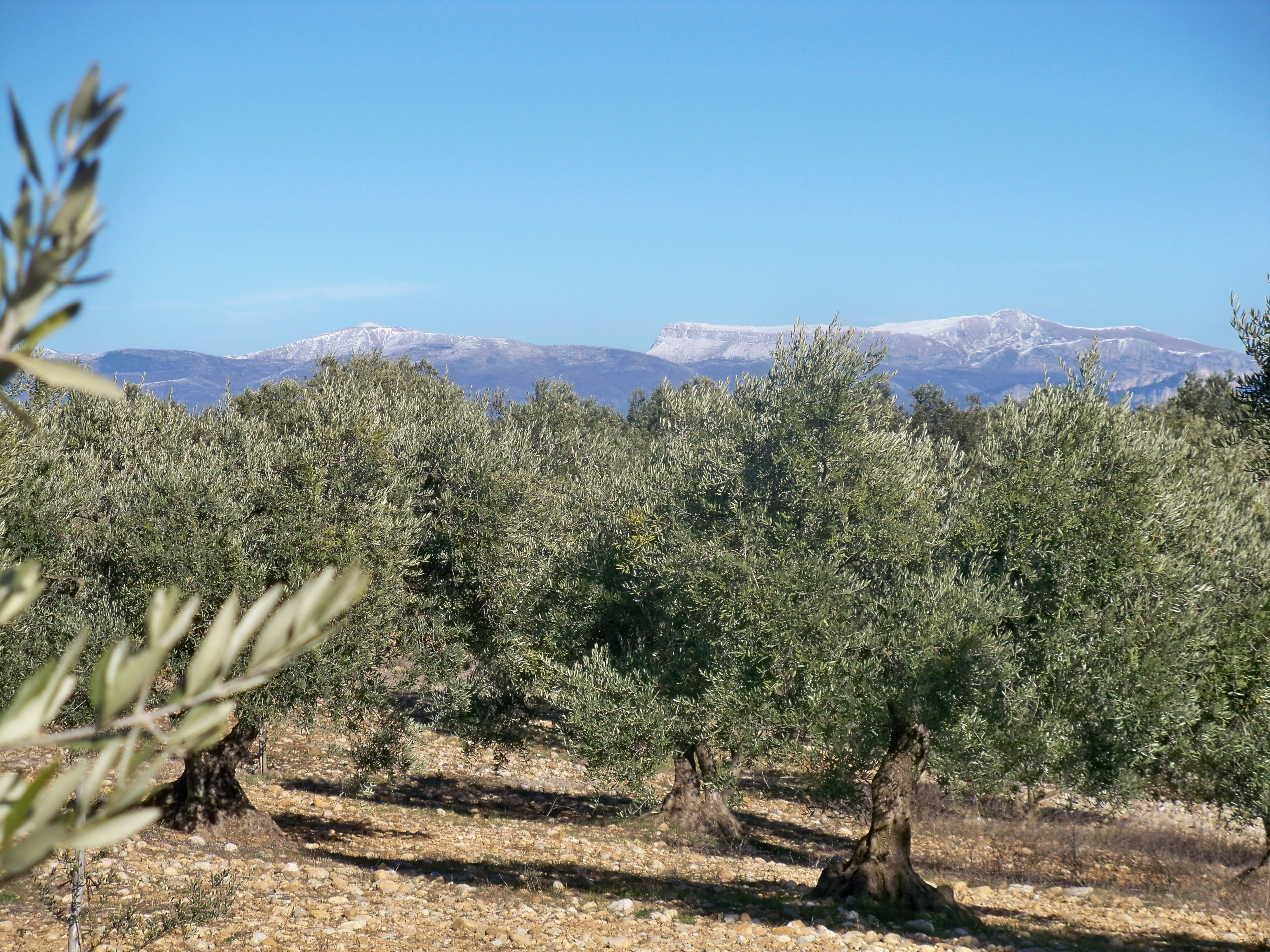 Oliver trees fields near Quinson (04), Frnce